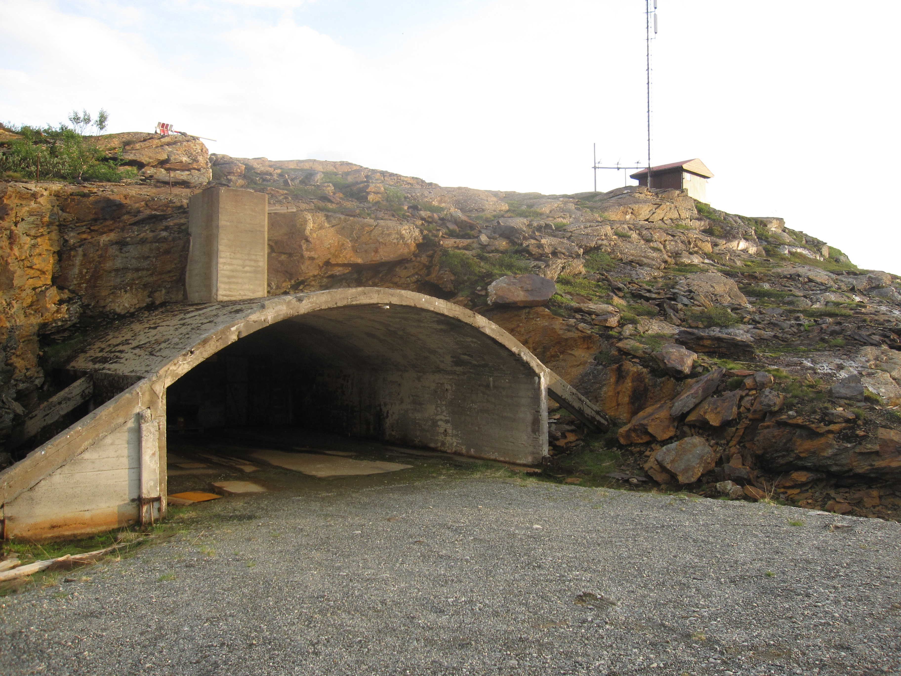 The old entrance to the mines in Skorovas, Nord-Trøndelag, is located near the top of Gruvfjellet.